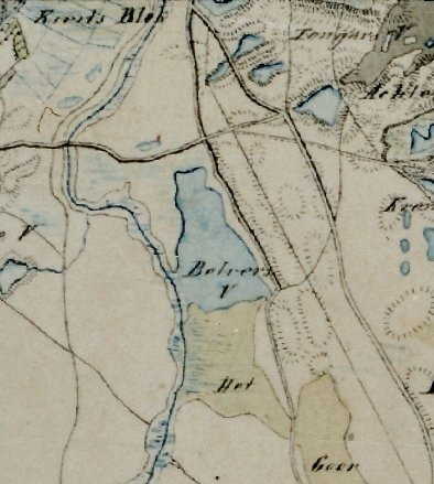 Topographisch Militaire Kaart 1850, 51 1rd Boxtel, fragment with Belversven